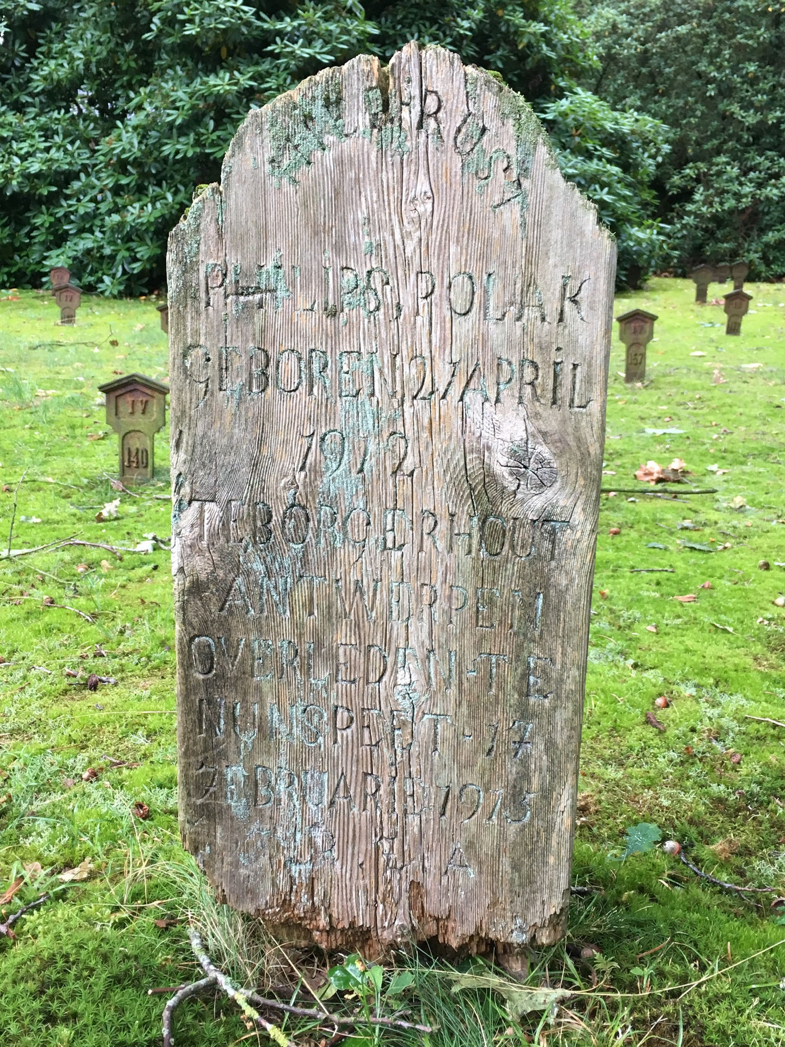 Wooden grave from a Belgian refugee during the great war